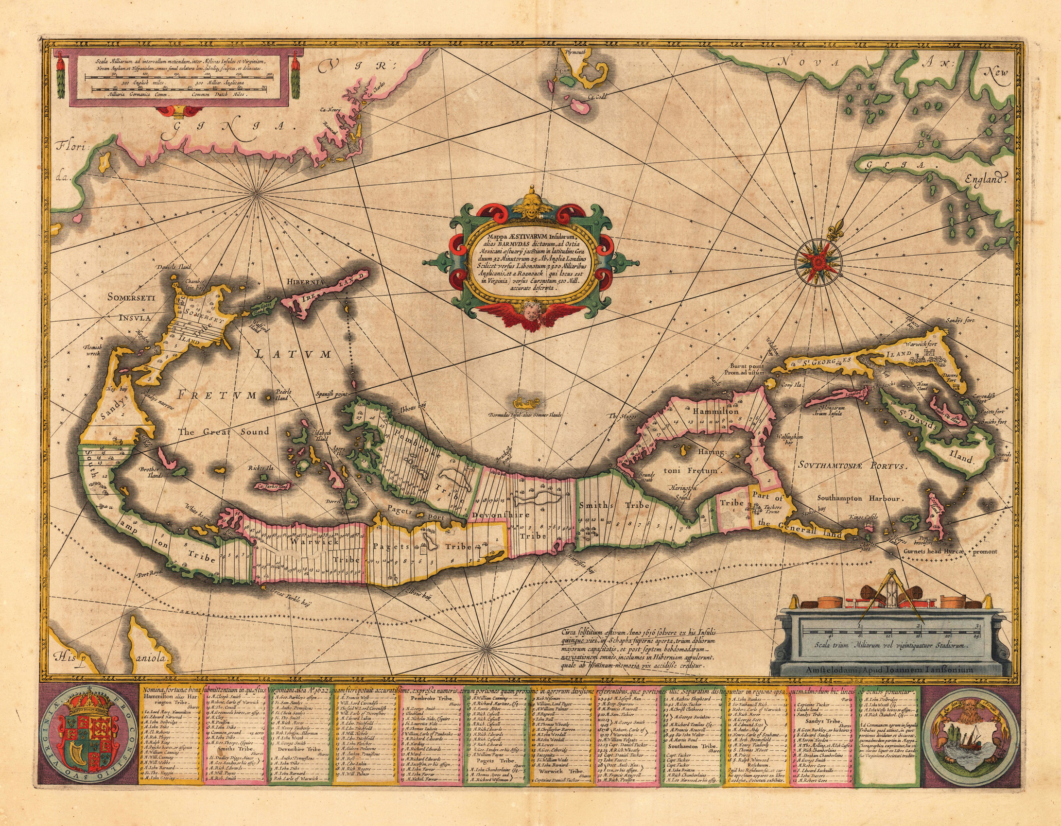 map of Bermuda, Atlantic Ocean